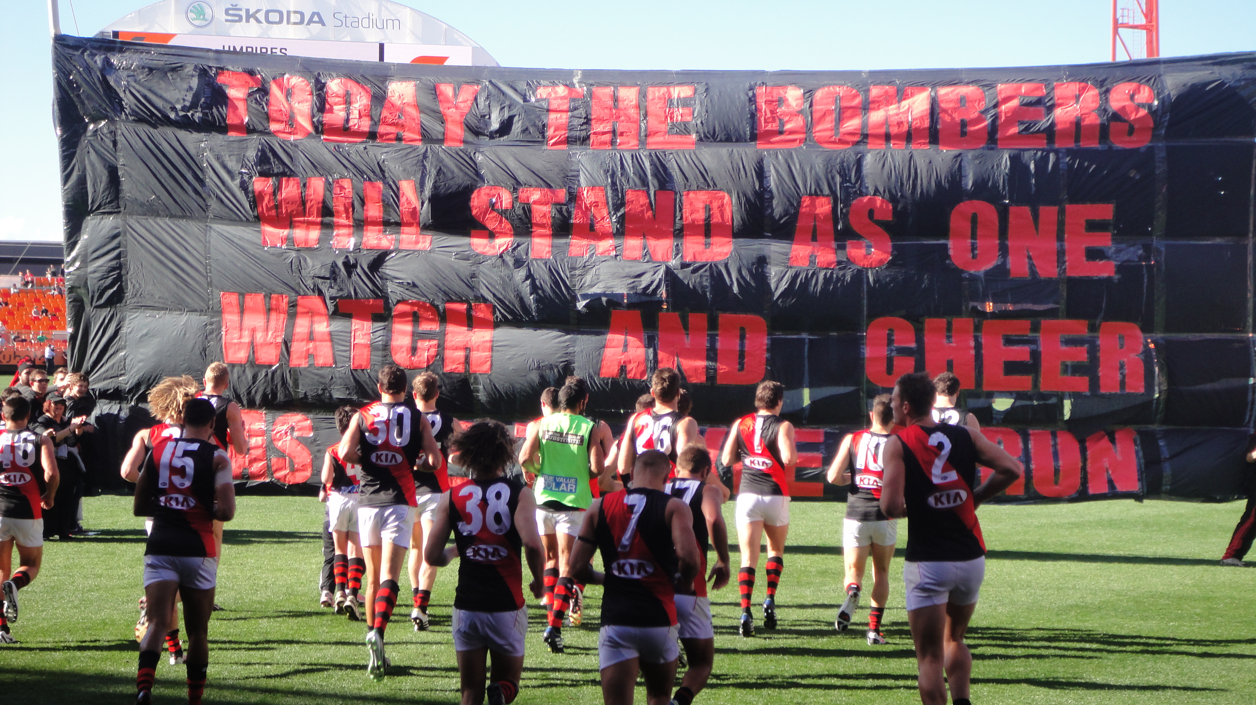 Essendon players break a banner before a match against GWS in 2013.